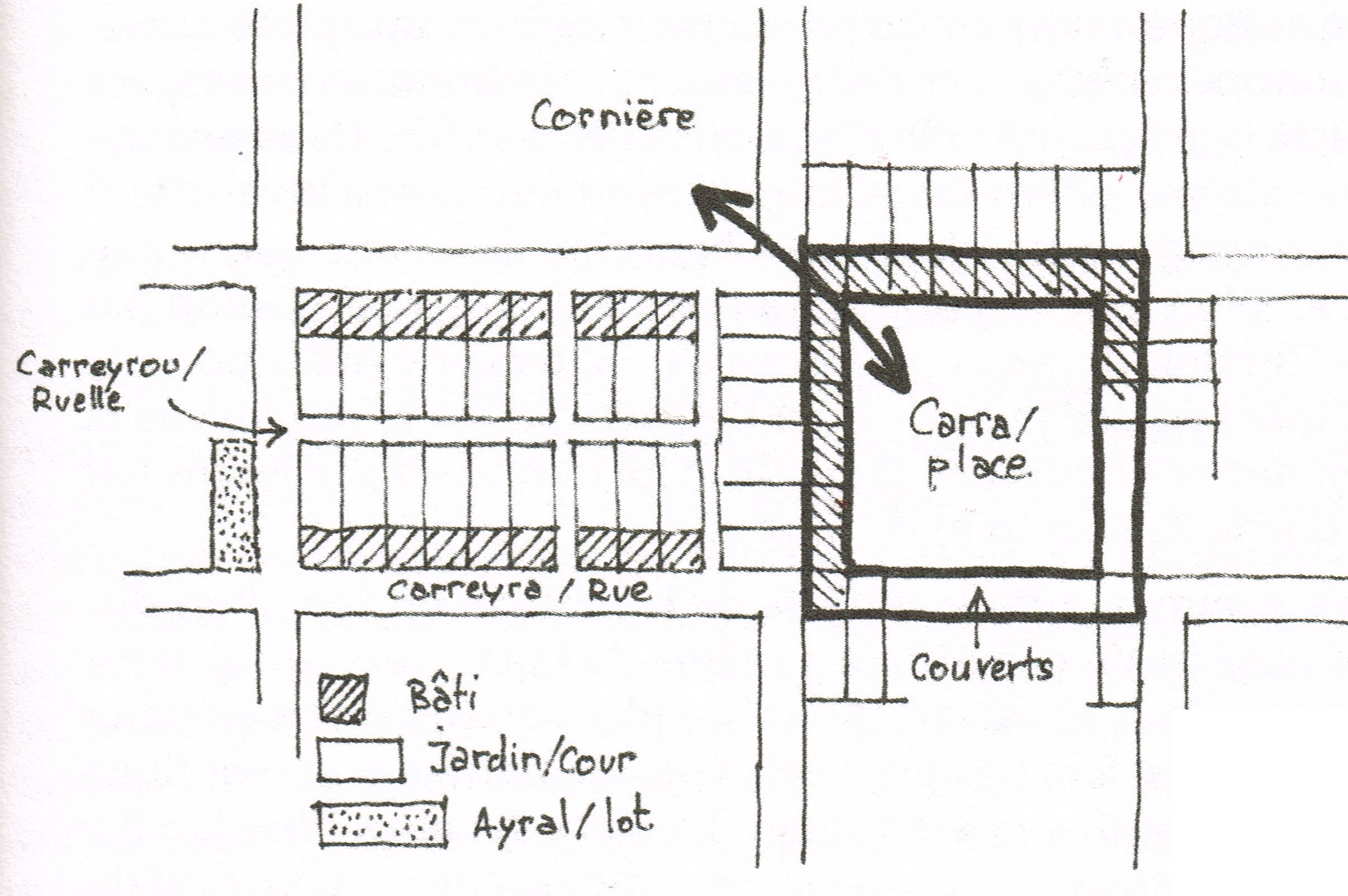 Plan type d'une place de bastide française Pattern of square - french bastide city